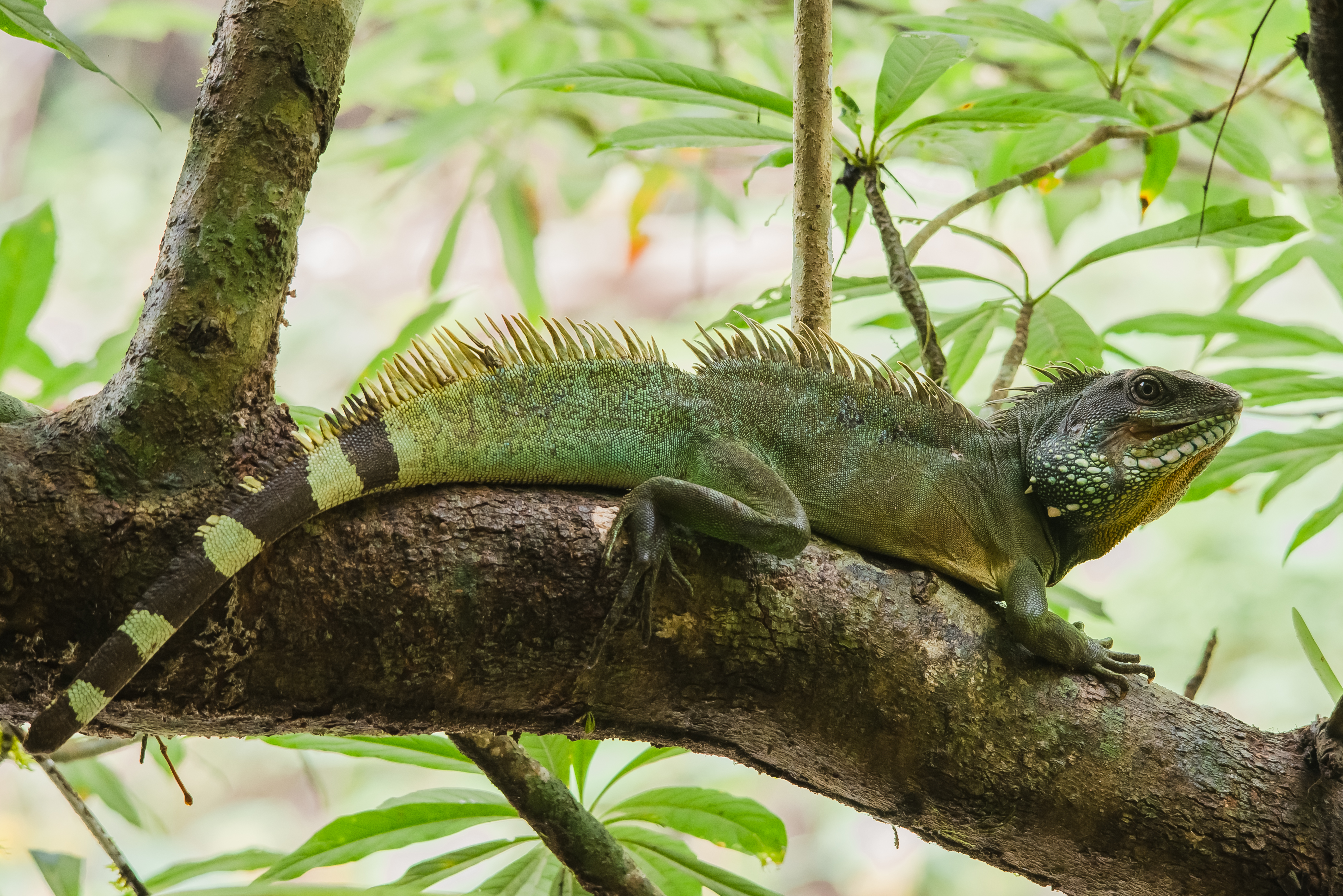 Chinese Water Dragon (Physignathus cocincinus) - Khao Yai National Park, Thailand